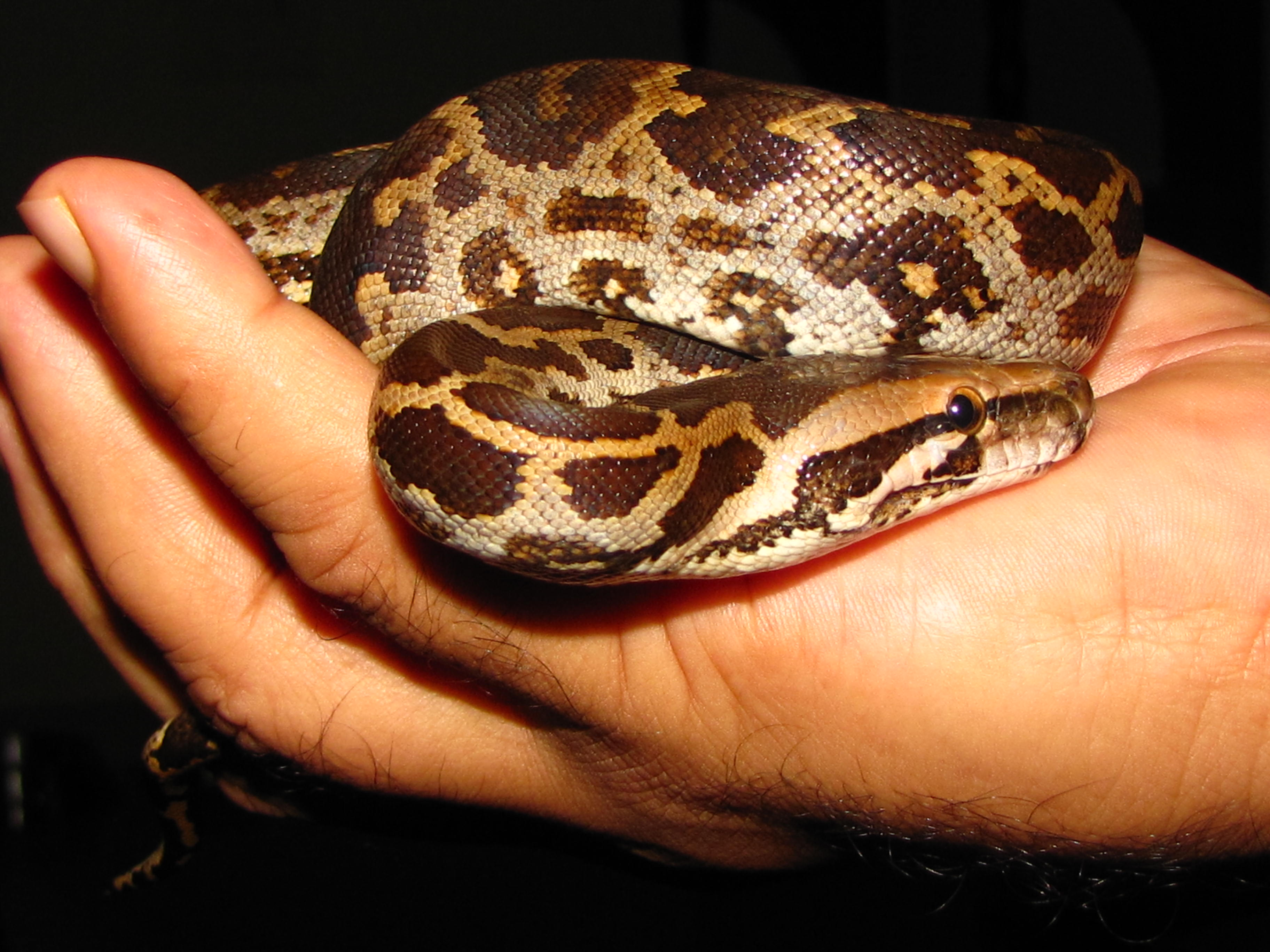 Juvenile Indian Rock Python